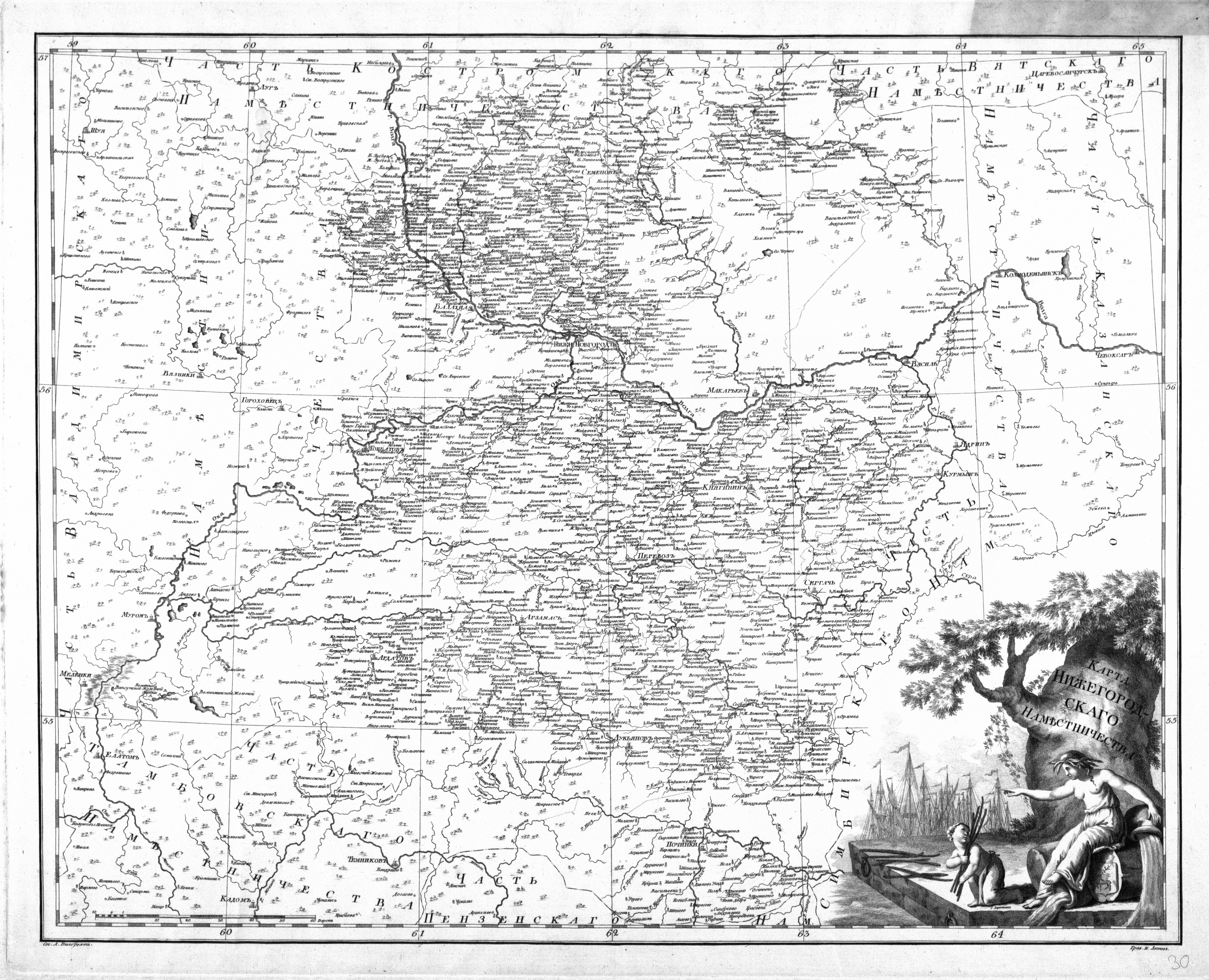 Map of Nizhny Novgord Namestnichestvo (sheet 30) from official Atlas of the Russian Empire (1792).